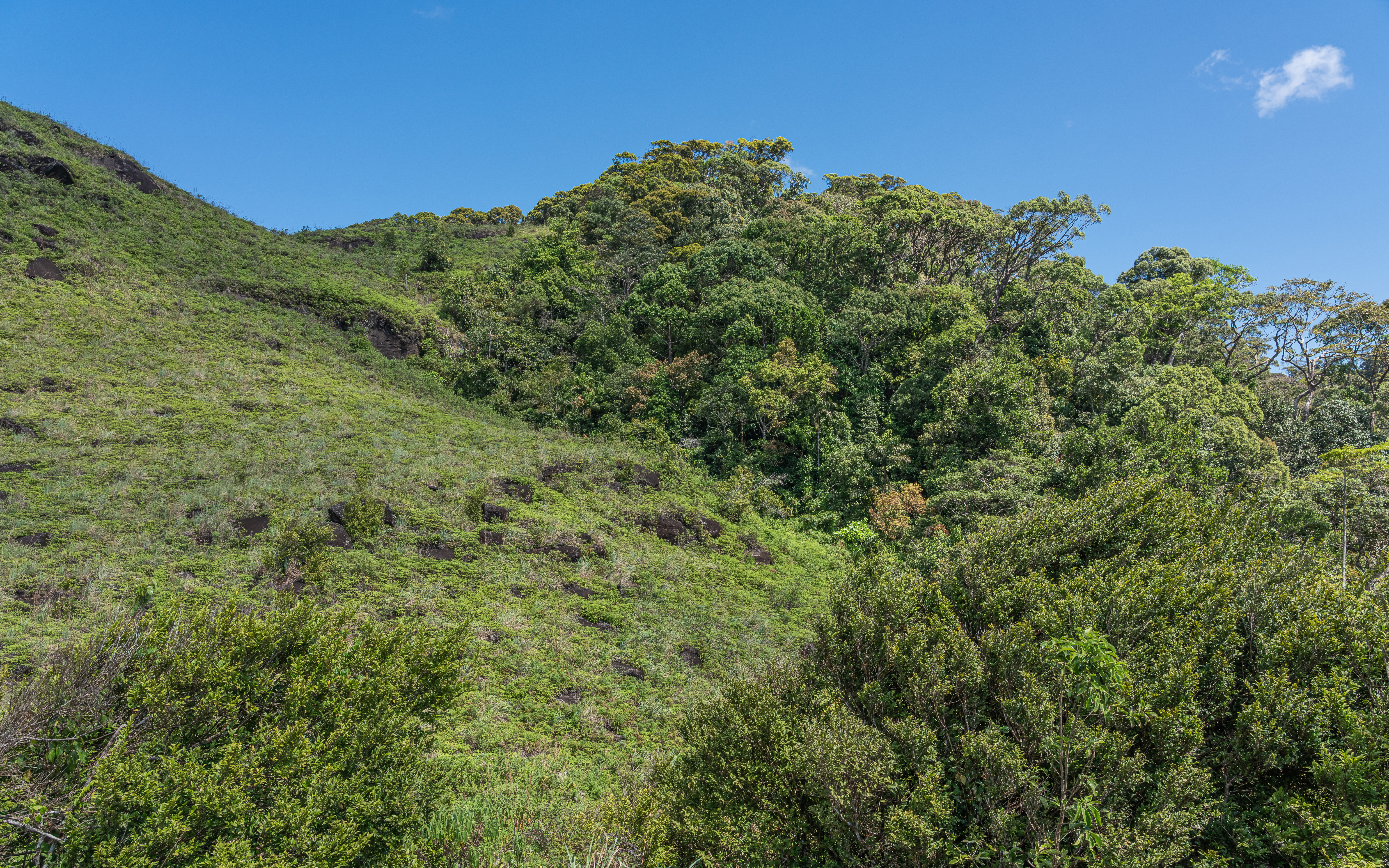 Scenic view of Sinharaja Rainforest near Deniyaya, Sri Lanka